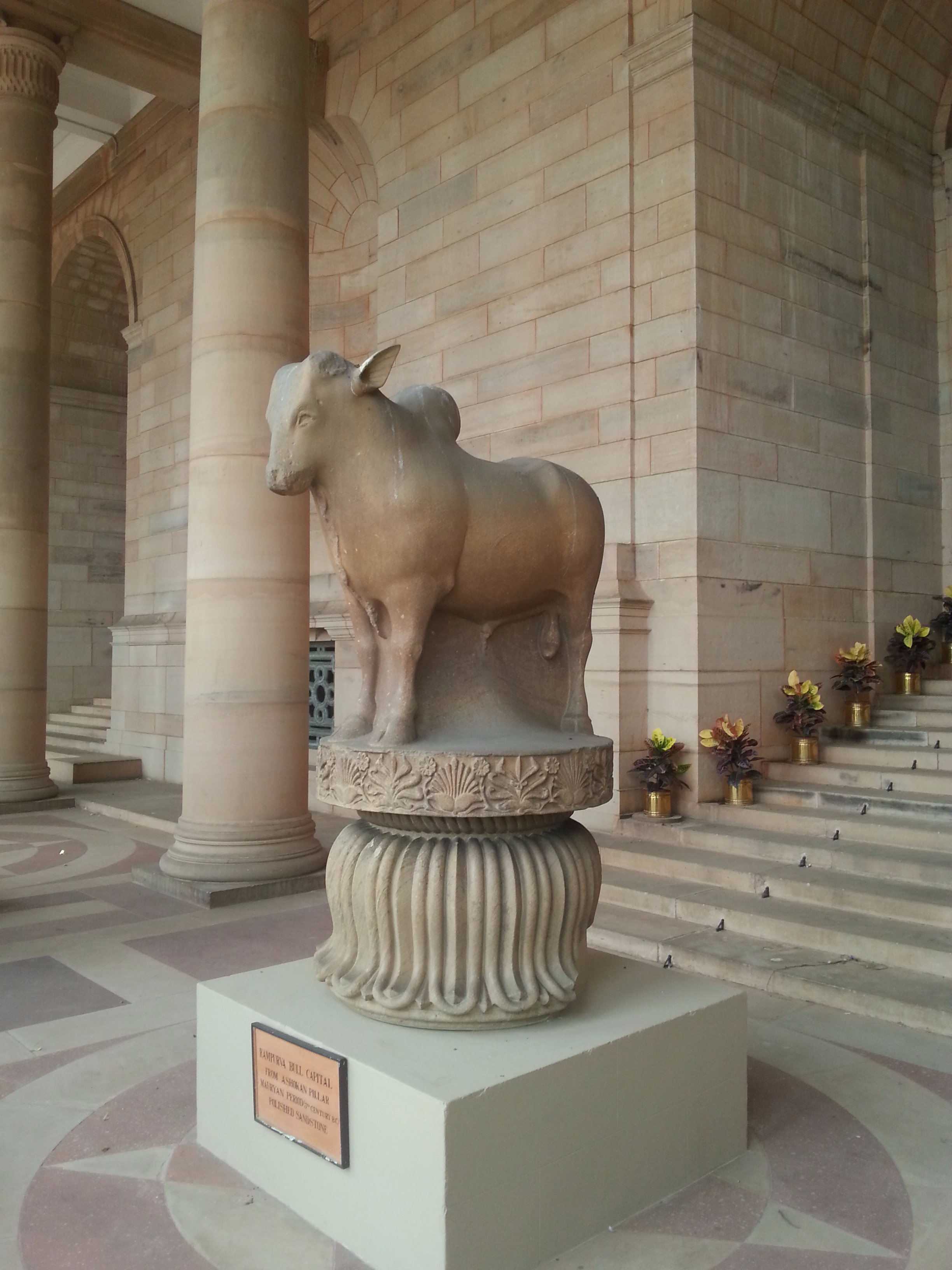 Rampurva bull in Presidential Palace